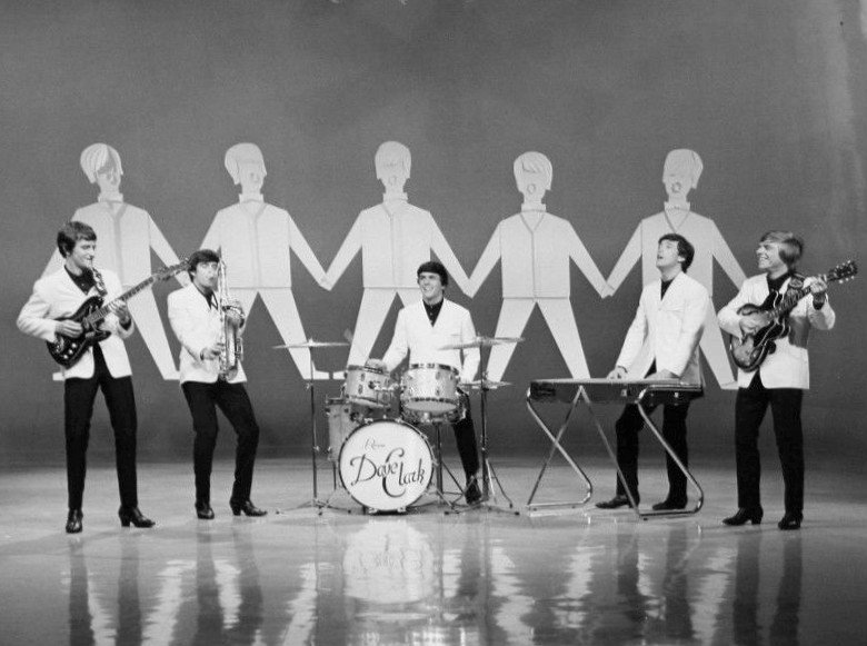 Photo of The Dave Clark Five performing on the Dean Martin Show in 1965. From left: Rick Huxley, Denis Payton, Dave Clark, Mike Smith and Lenny Davidson.